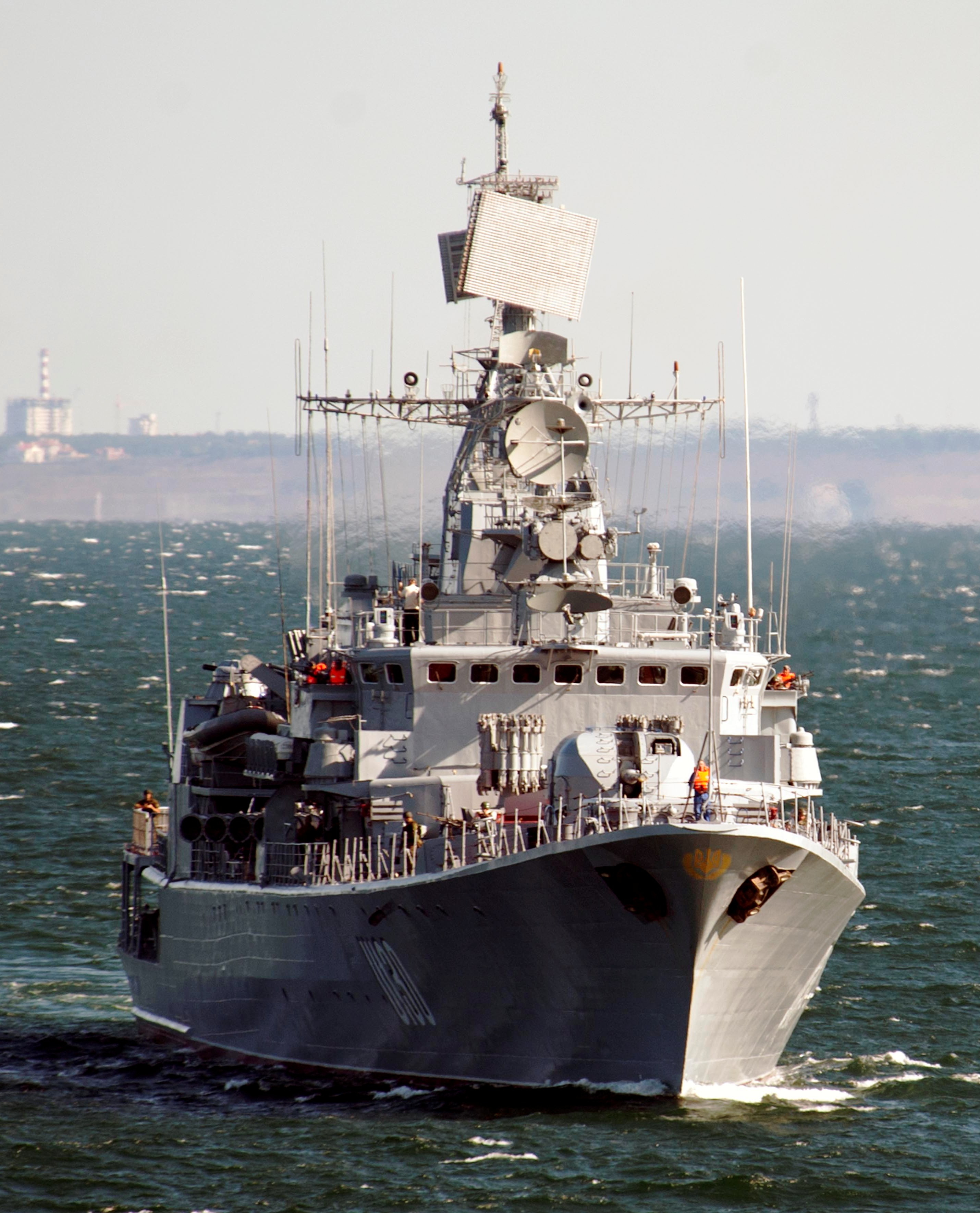 BLACK SEA - Ukrainian navy frigate Hetman Sahaydachniy (U 130) participates in a mine counter measure exercise during Exercise Sea Breeze 2012 (SB12). SB12, co-hosted by the Ukrainian and U.S. navies, aims to improve maritime safety, security and stability engagements in the Black Sea by enhancing the capabilities of Partnership for Peace and Black Sea regional maritime security forces. (Cropped image)